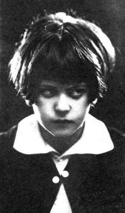 Spanish Child Actor Alfredo Hurtado Pitusín